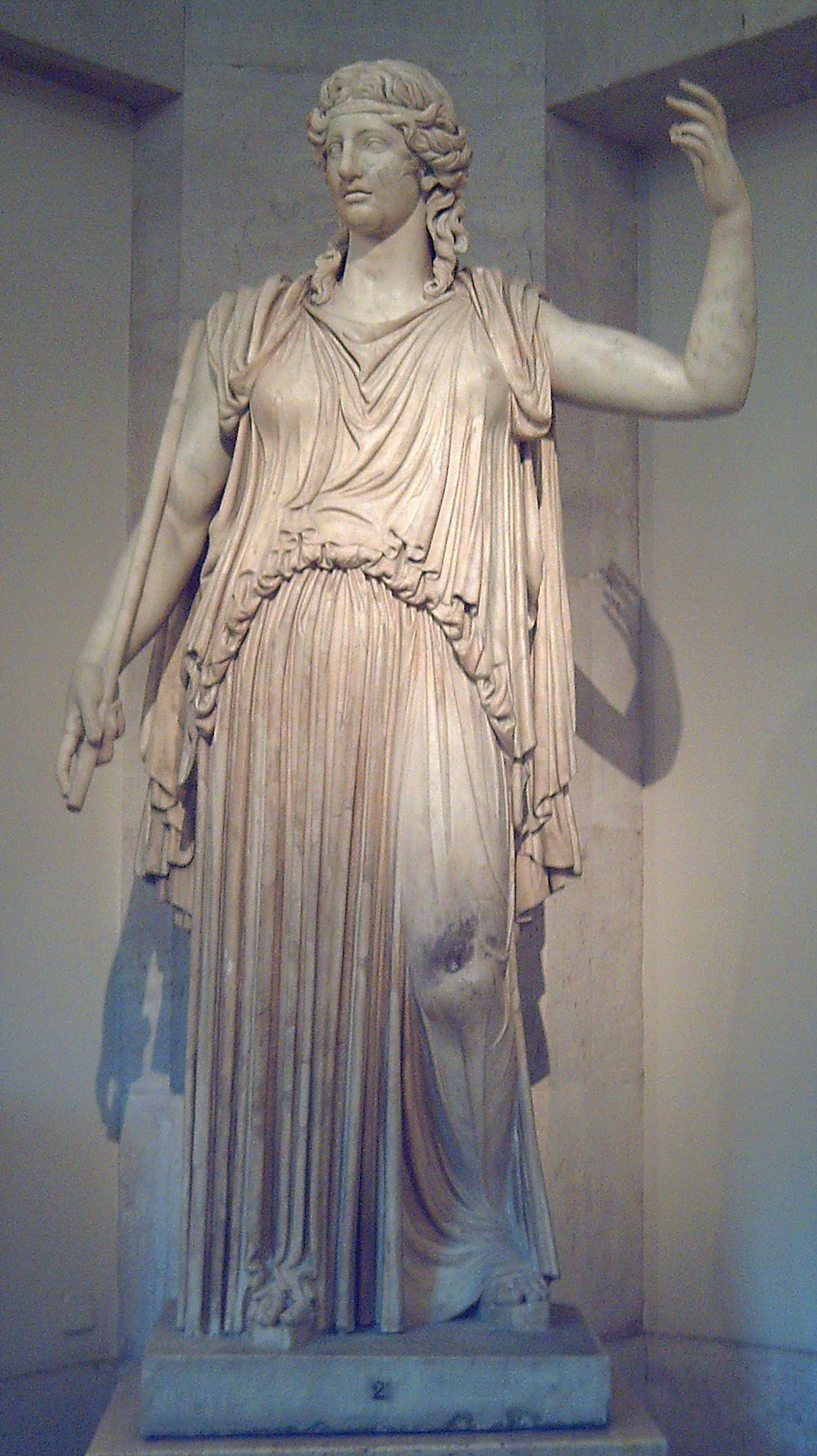 Roman statue of Demeter, of the Madrid-Capitol type.